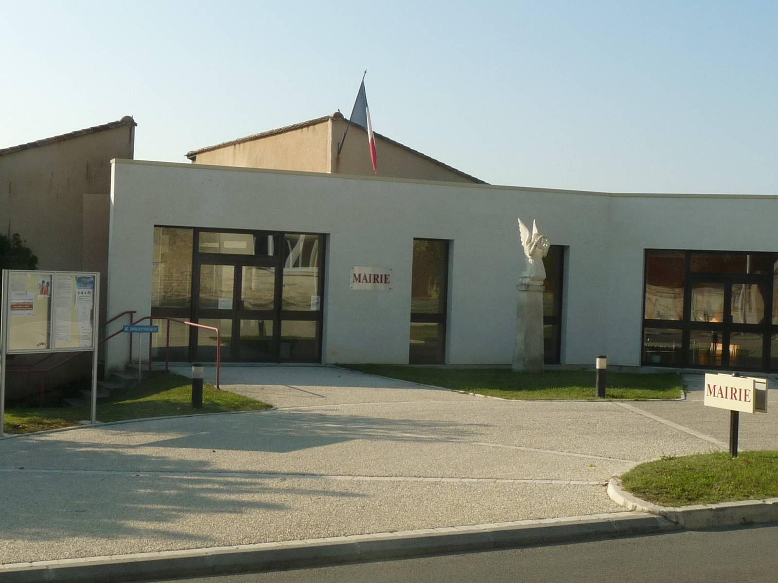 town hall of Trois-Palis, Charente, SW France